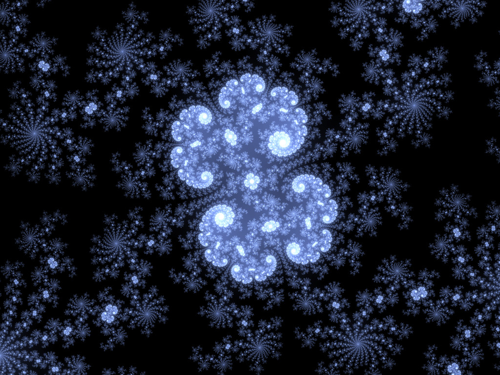 Coordinates: -0.26605838294940658357 by -0.65123057178473777796, Zoom: 484262776